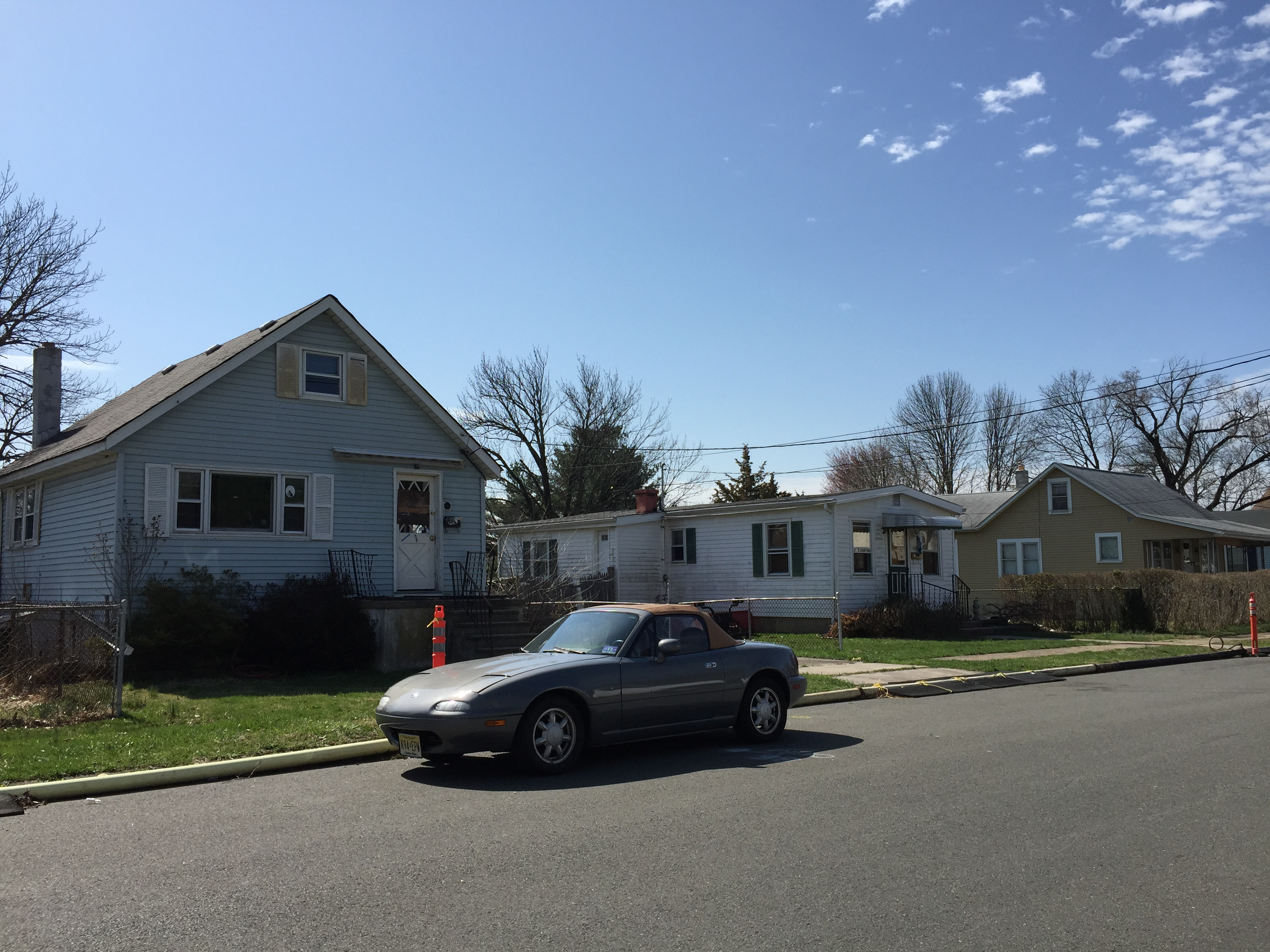 Homes along 6th Street in the Prospect Heights section of Ewing, New Jersey